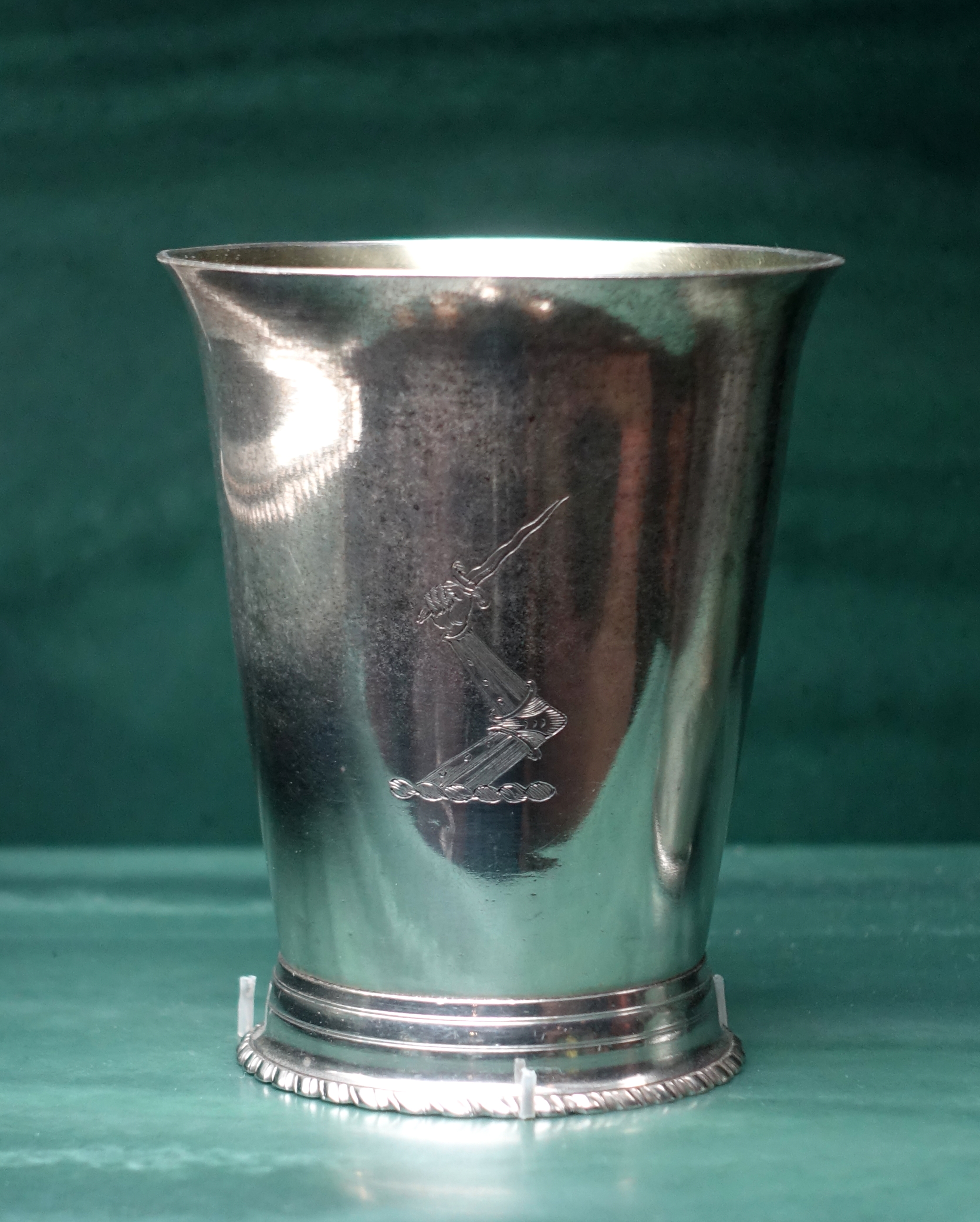 Exhibit in the Fowler Museum - University of California, Los Angeles - Los Angeles, California, USA.